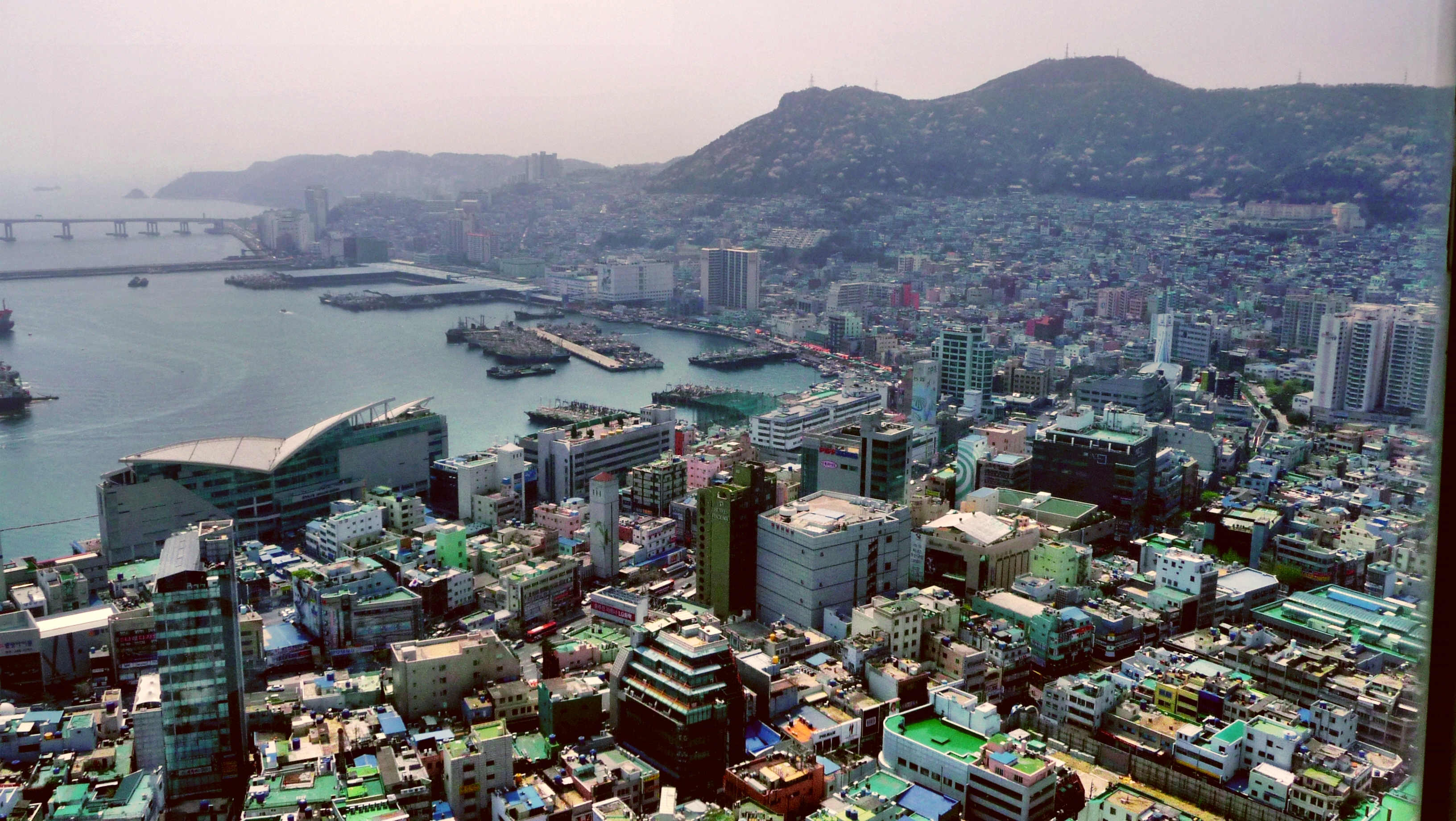 Busan Cooperative Fish Market and Jagalchi Market